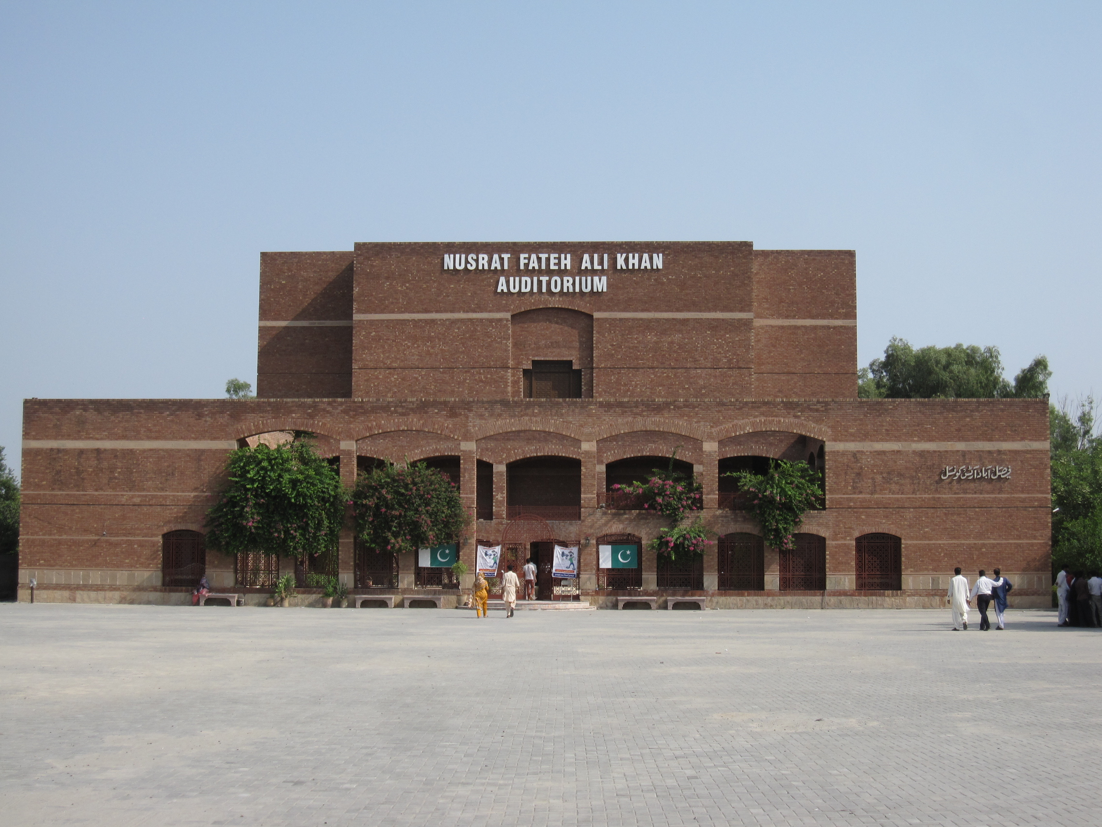 Faisalabad Arts Council This is a photo of a monument in Pakistan identified as the PB-U-11